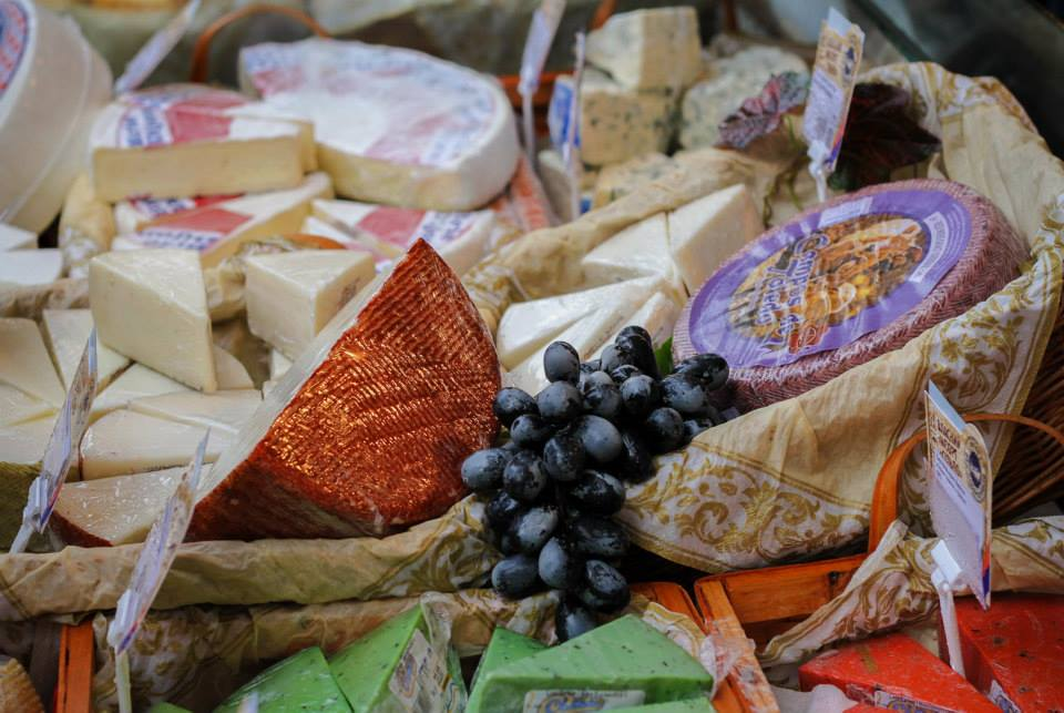 Презентація різних видів сиру